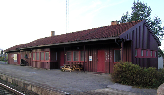 Disenå railway station, Sør-Odal, Hedmark, Norway. Built 1954.